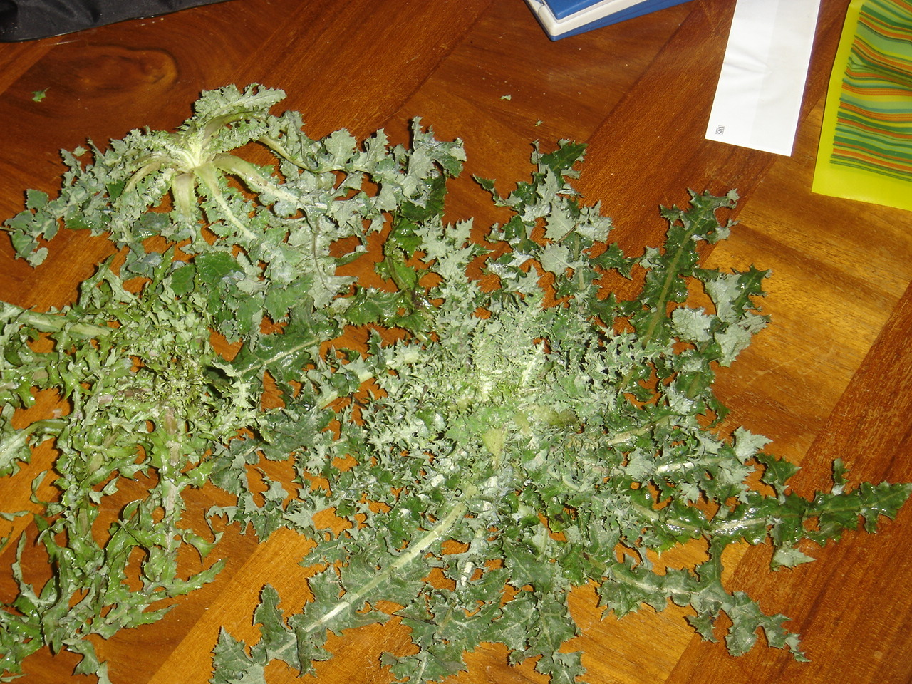 Sonchus oleraceus - Sonchus plants scattered on the table.